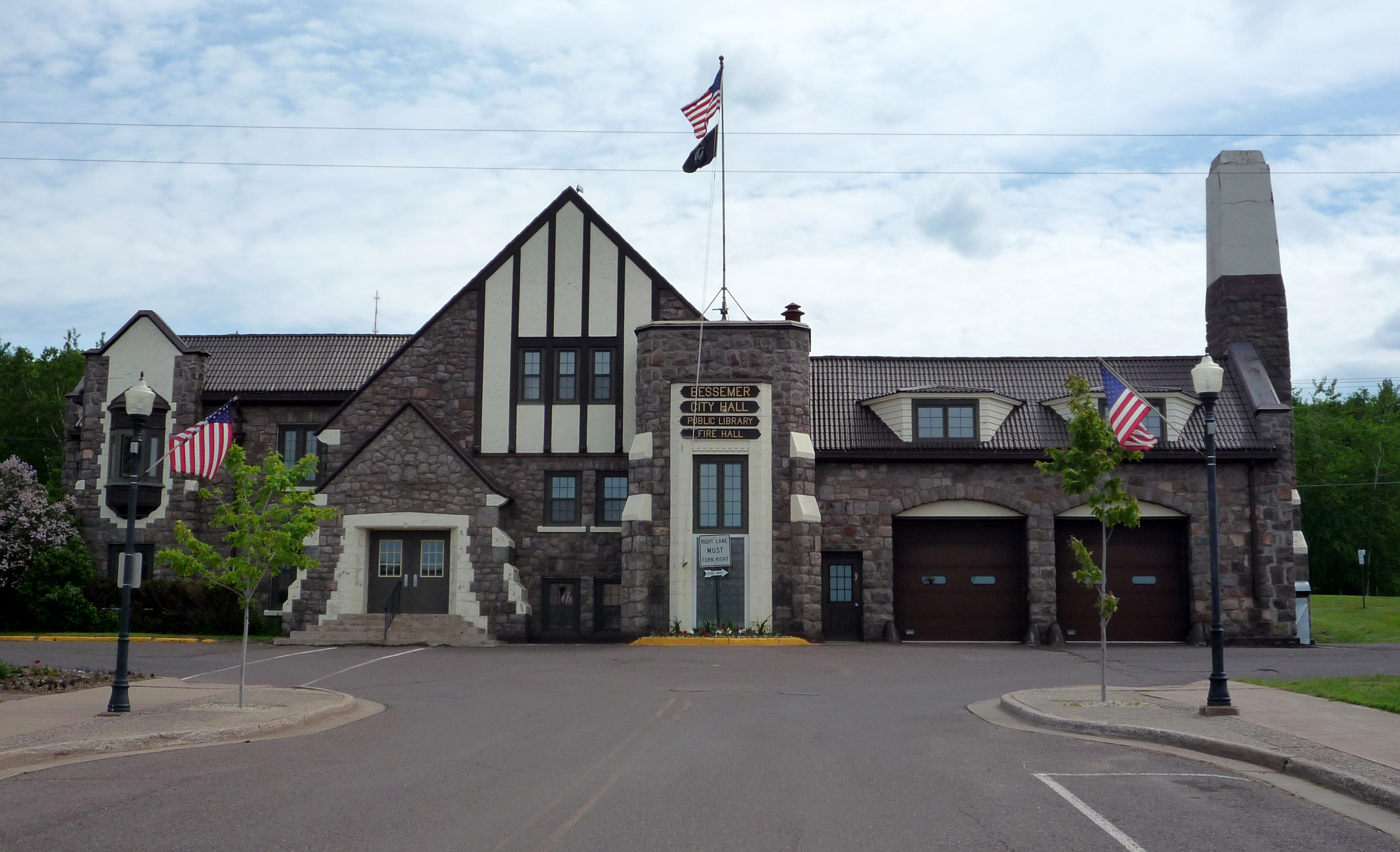 City Hall, Public Library, and Fire Hall — Bessemer, Upper Michigan.